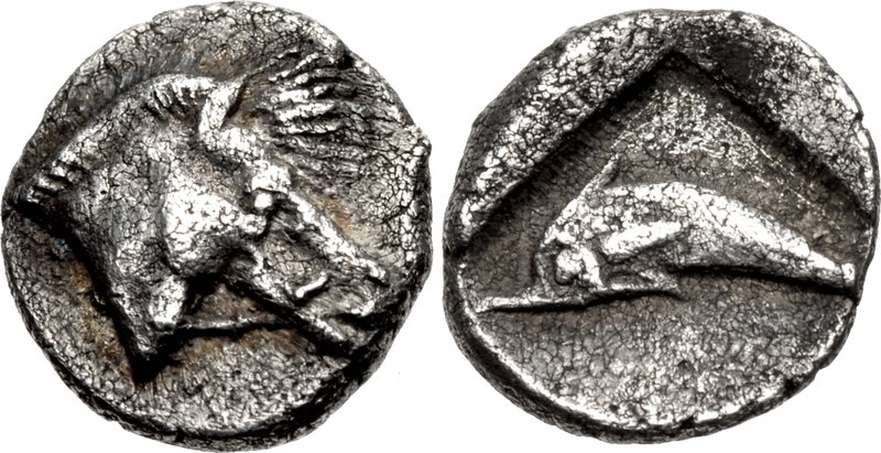 MACEDON, Methone. 5th century BC